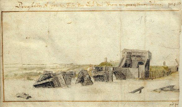 Heilbronn: Die Steinbrücke über den Neckar wurde 1691 durch Eisgang zerstört. Das Bild zeigt die zerstörte Brücke. Später wurde ein Holzbrücke errichtet, die auf einem der alten Pfeiler aus Stein auflag. 1807 wurde die Holzbrücke erneuert. 1867 wurde sie durch eine moderne Brücke ersetzt.